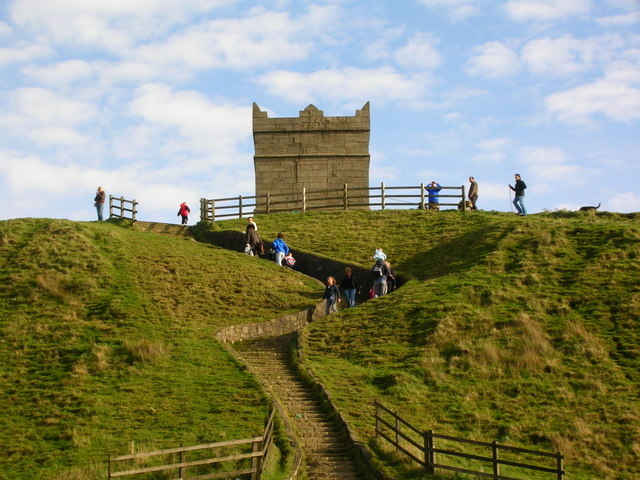 Tower on Rivington Pike, near to Rivington, Lancashire, Great Britain. A popular objective for a Sunday afternoon walk.